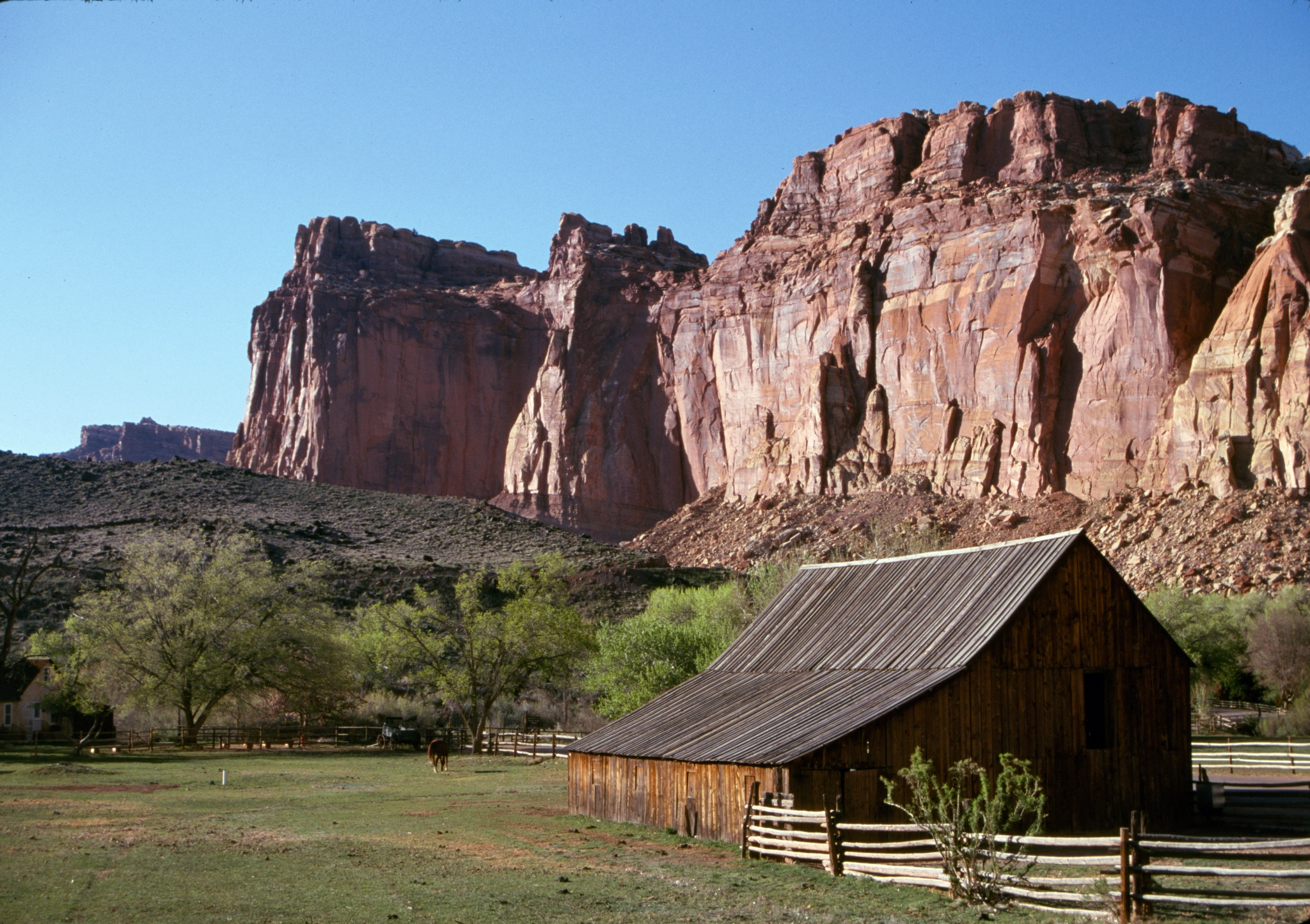 Barn building of the historic Gifford farm, Fruita, Utah, USA. Fruita is a ghost town inside Capitol Reef National Park.